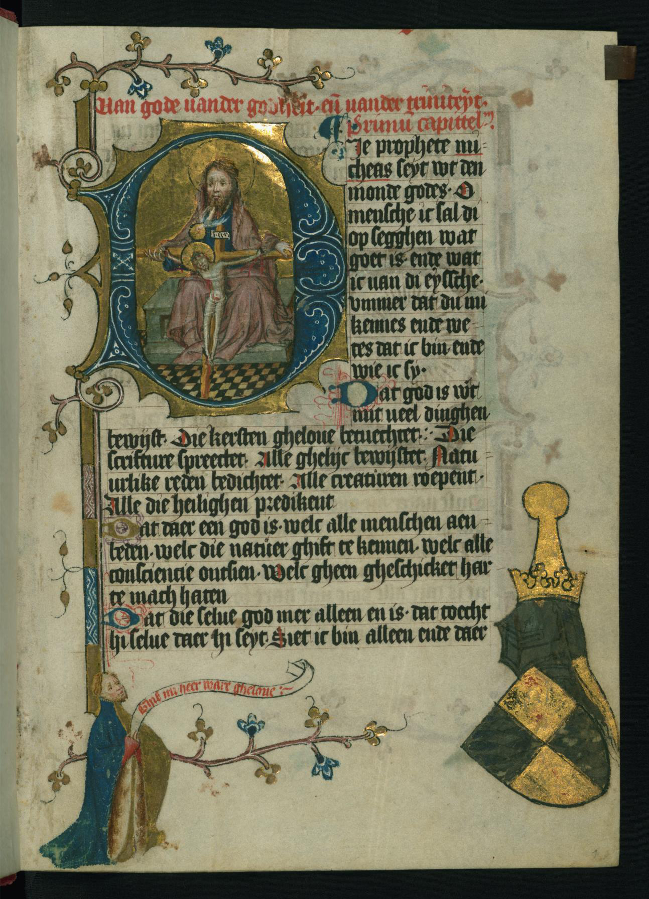 This folio from Walters manuscript W.171 depicts a kneeling man in lower margin holds a scroll inscribed "Ghif mi heer ware ghelove". Opposite this figure, a helm with a crest and shield bears coat of arms of Albrecht of Bavaria.